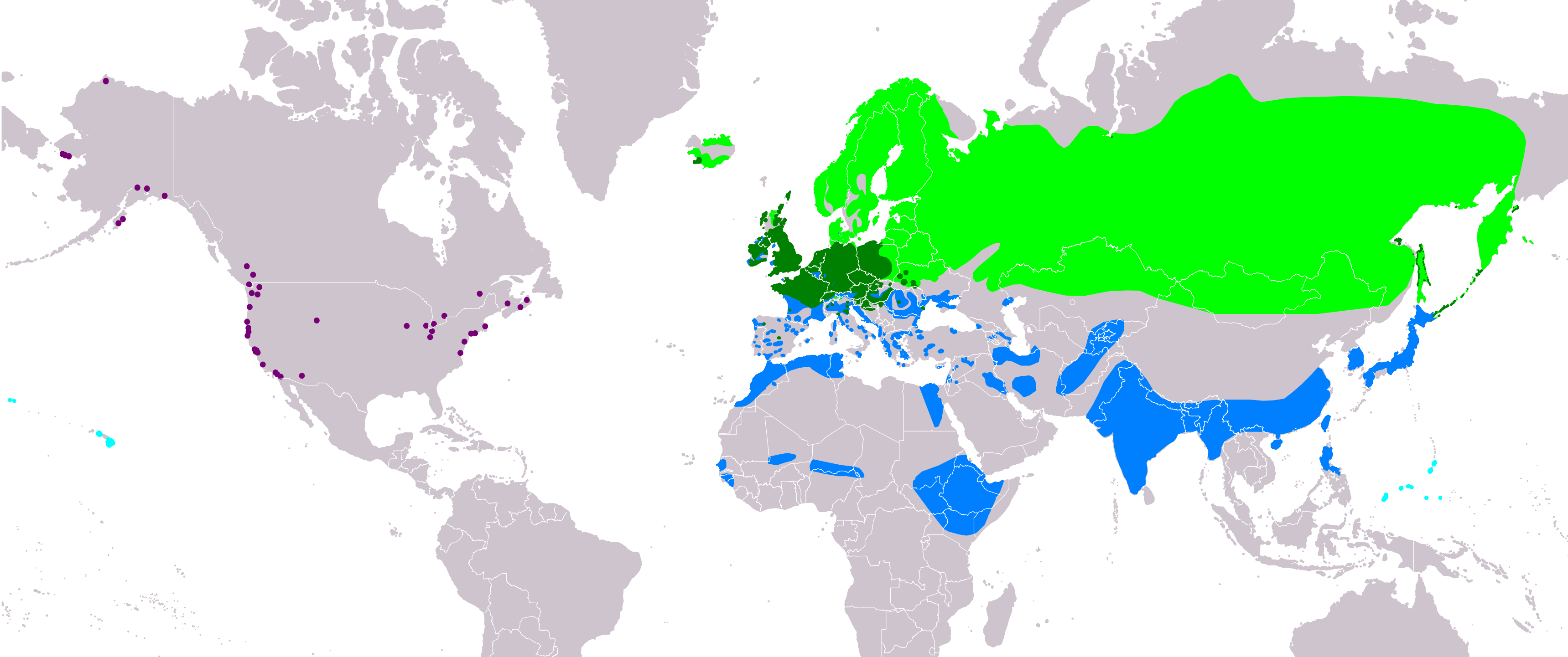 distribution map of tufted duck (Aythya fuligula) according to IUCN version 2018.2 , Legend: Extant, breeding (#00FF00), Extant, resident (#008000), Extant, passage (#00FFFF), Extant, non-breeding (#007FFF), Extant & Vagrant (resident) (#770077)